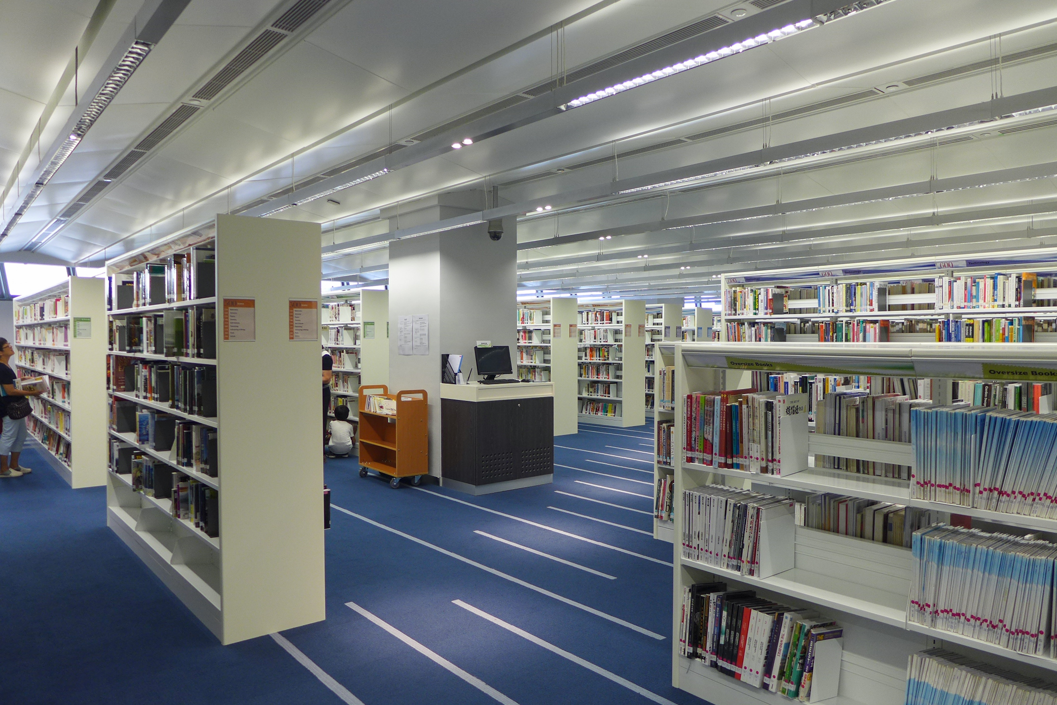 Yuen Long Public Library interior